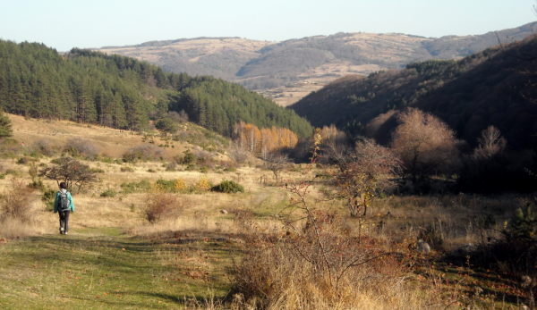 Jeleznishka River Valley